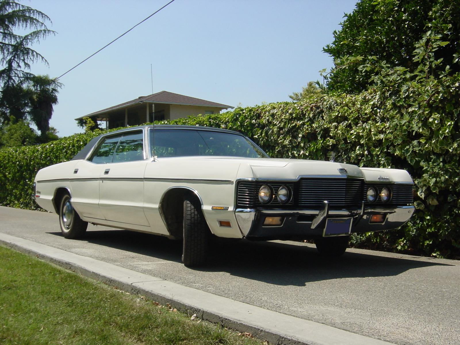 1971 Mercury Monterey auto seen from front